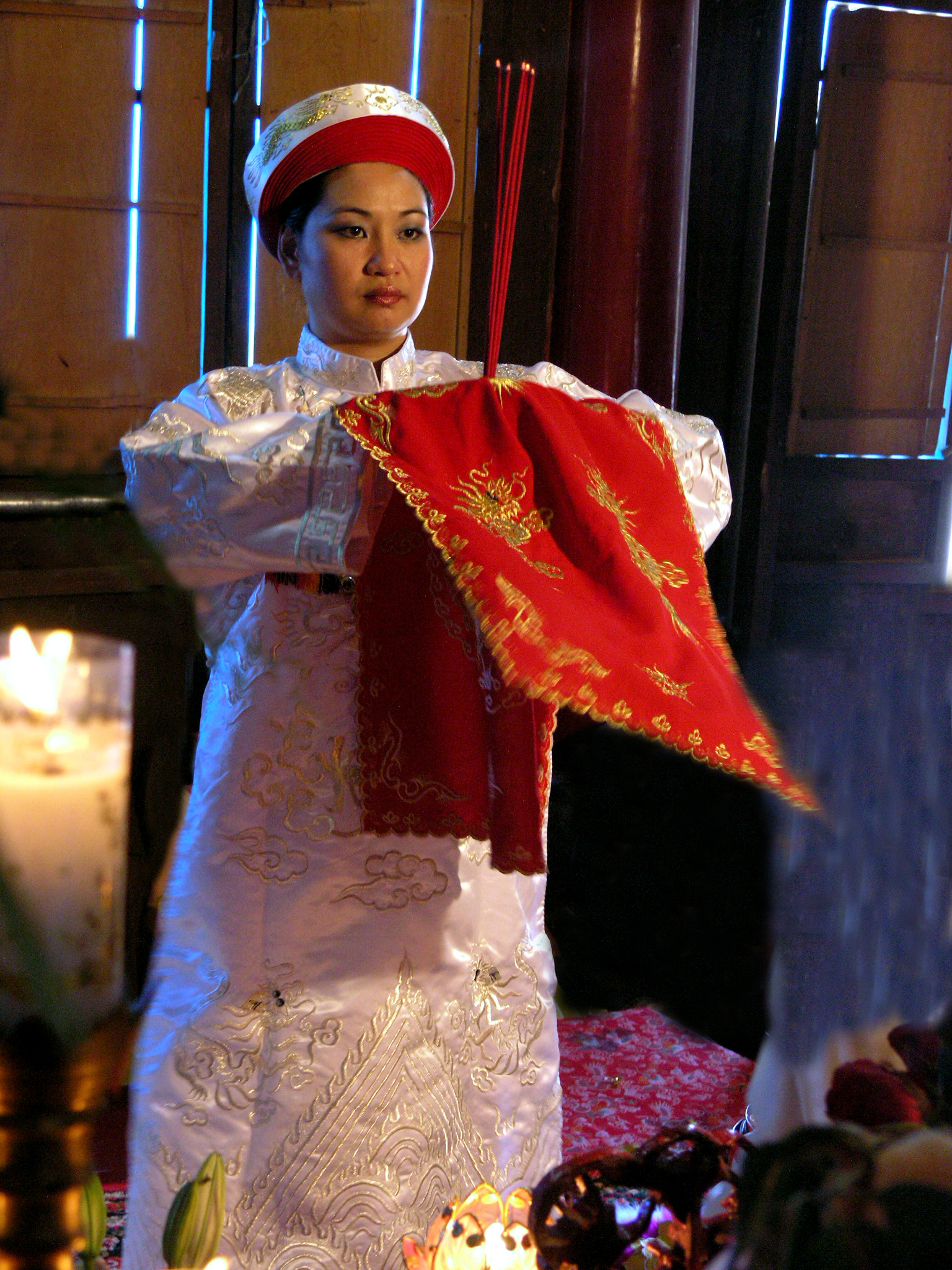 Len Dong Dance,Vietnam, in a pagoda in Vietnam. There are 12 changes of clothing,with change of personality at the same time. It is rare for the Len Dong to be a young women (32 years old), most are men